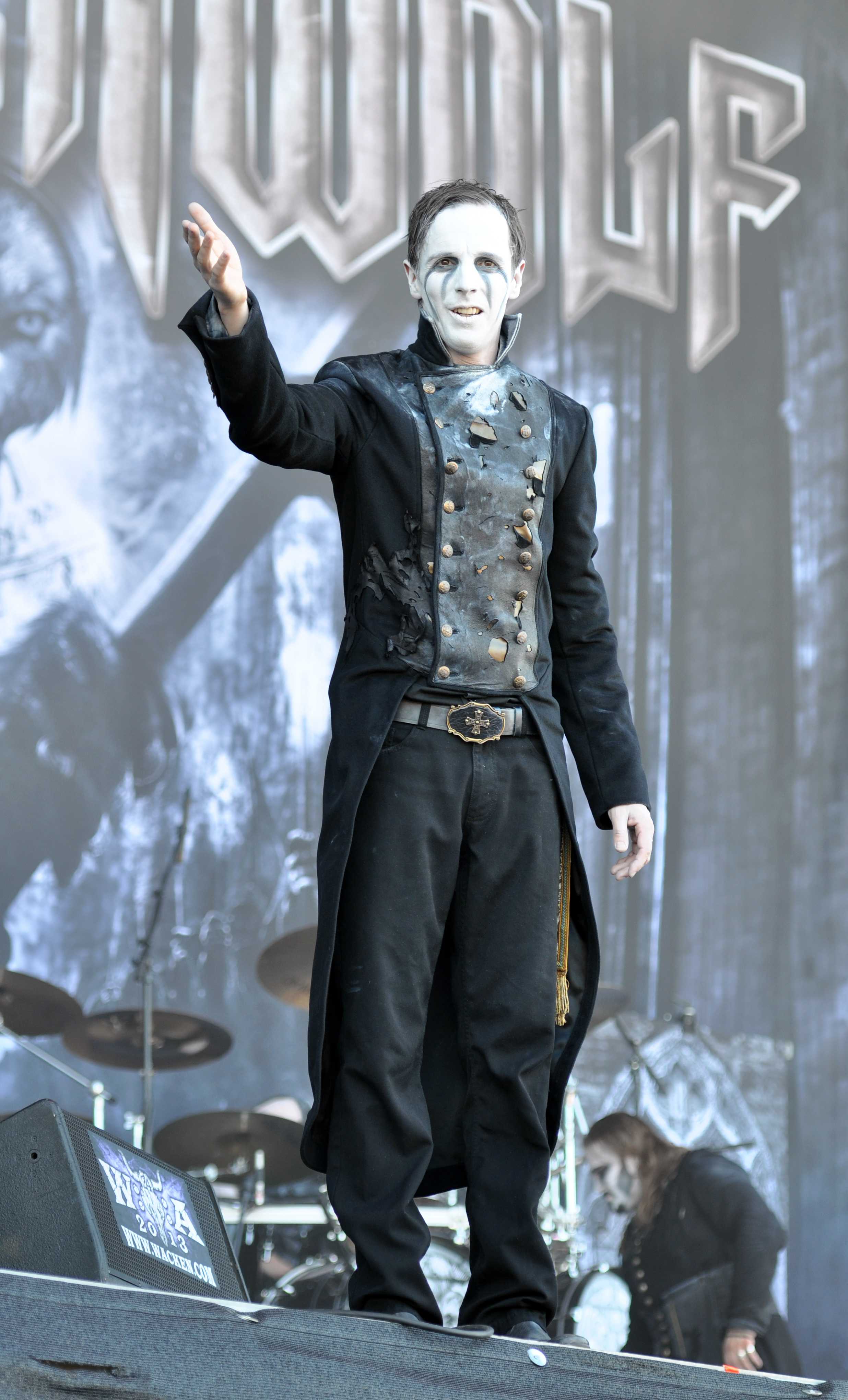 Powerwolf at Wacken Open Air 2013